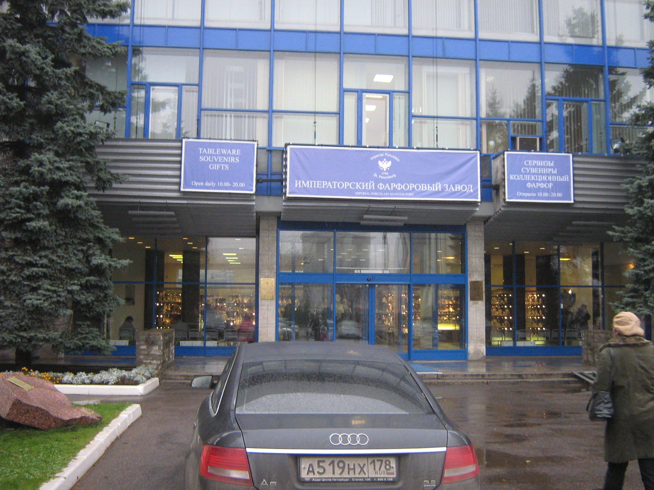 Saint Petersburg (Russia), Vasilievsky Island